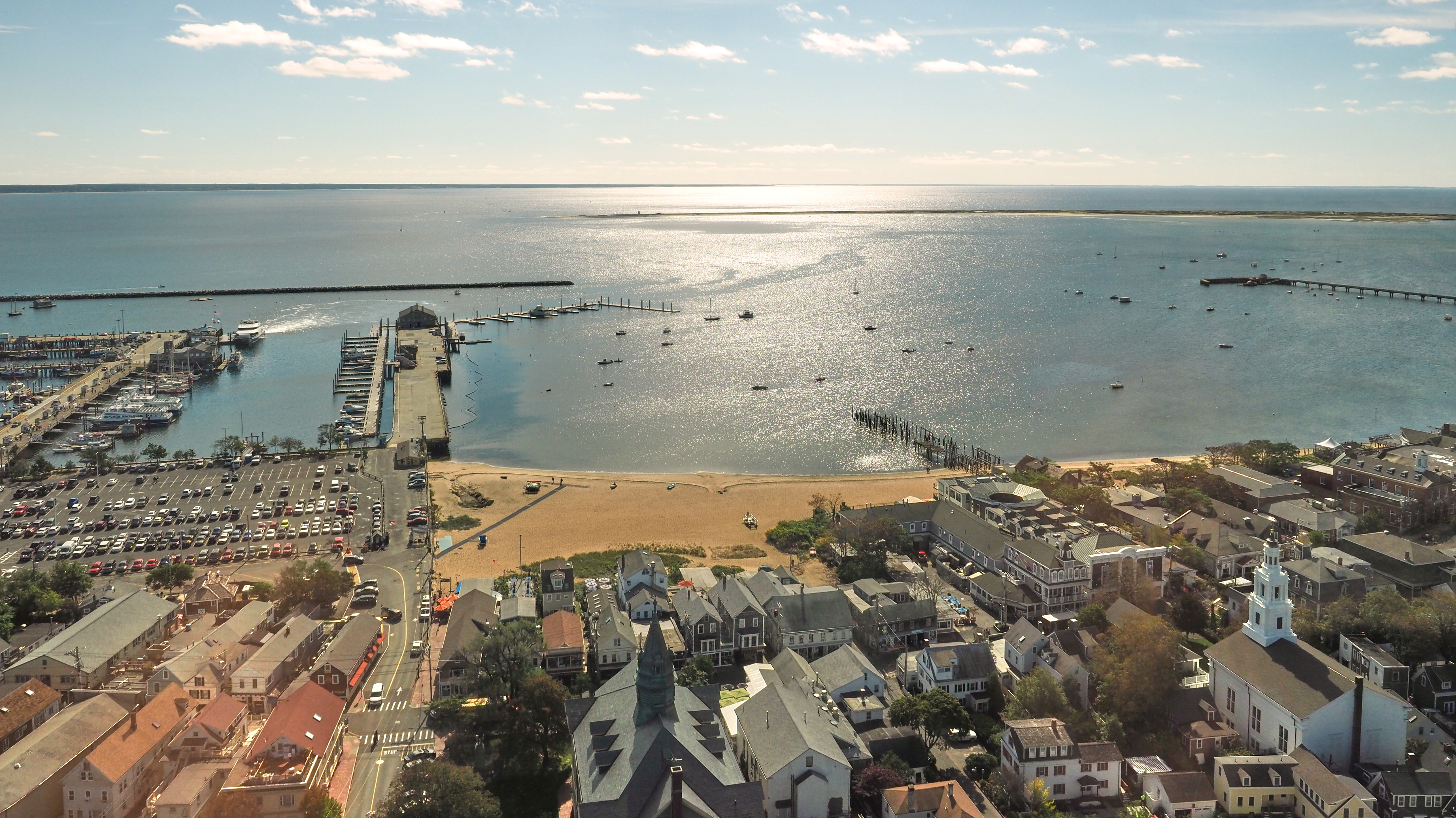 Provincetown and Provincetown Harbor (MA, USA). Looking south-east from the top of Pilgrim Monument. Macmillan Wharf, far left. Fishermen's Wharf, left-center. Coast Guard Pier, far right. Long Point, right and center, just below the horizon, with Long Point Light near the tip (just left of center).